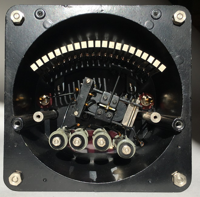 Vibrating reed type frequency meter.